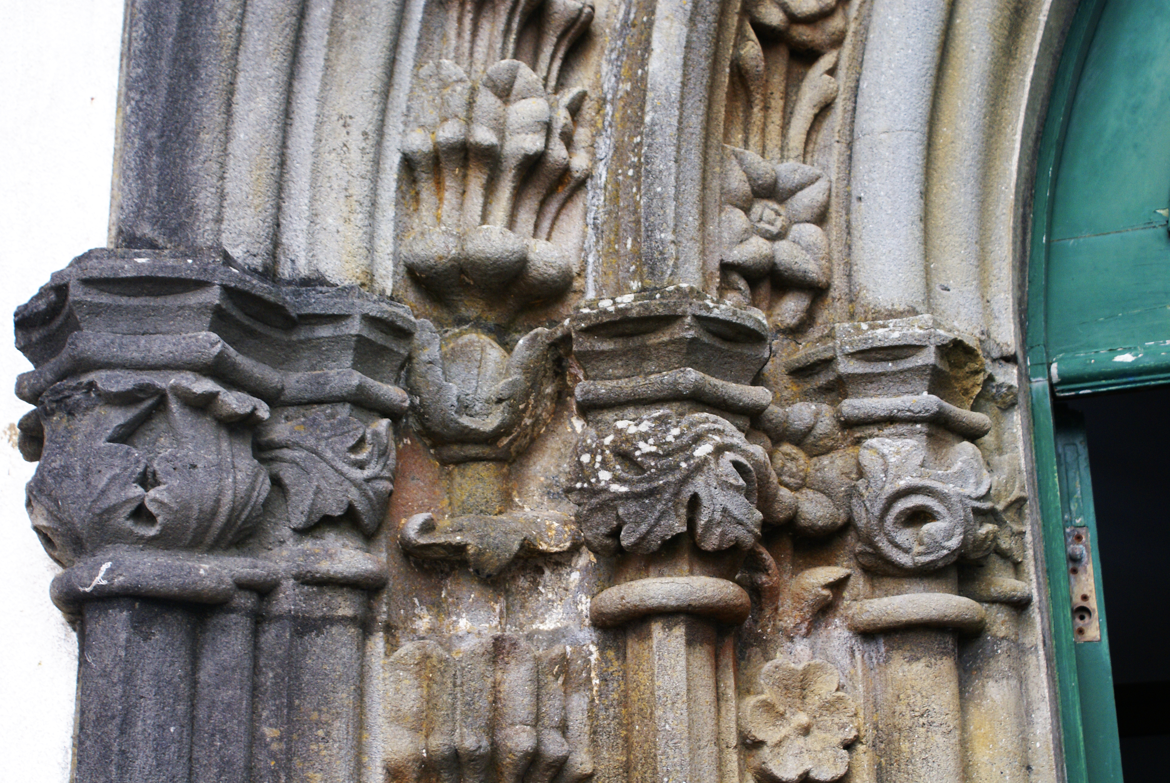 Detail, main door, the Church of Santa Bárbara, Cedros, Horta, Faial (Azores), Portugal